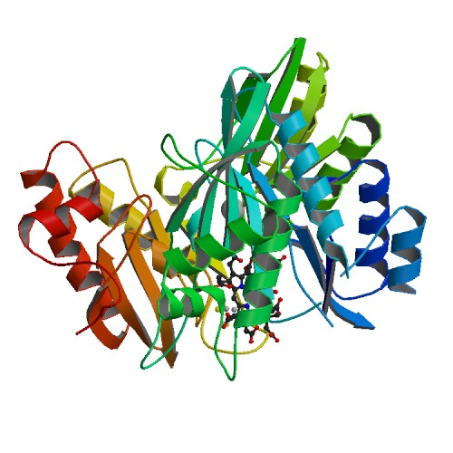 Image from the RCSB PDB ( of PDB ID 1AOP (Crane B, Siegel L, Getzoff, E. 1995. Sulfite reductase structure at 1.6 A: Evolution and catalysis for reduction of inorganic ions. Science 270: 59-67.)